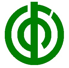 Ueno Gunma chapter